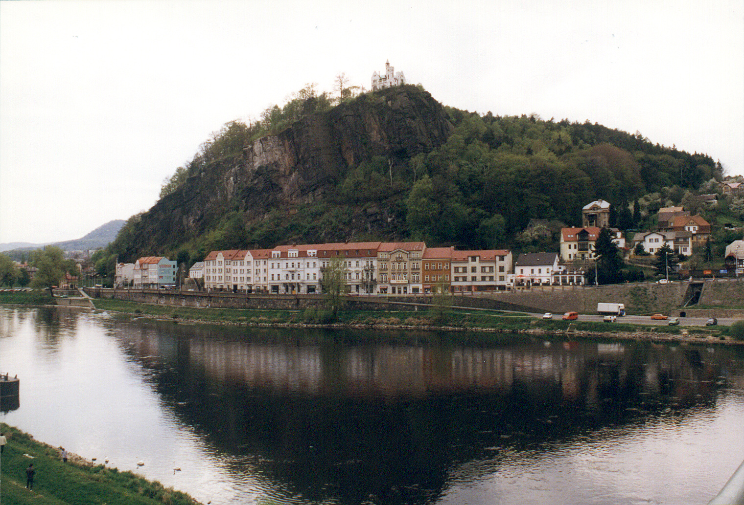 Děčín at the river Labe (Elbe) in Czech Republic (a view of the Pastýřská stěna (Shepards' Rock) in Podmokly - left bank of the Elbe)